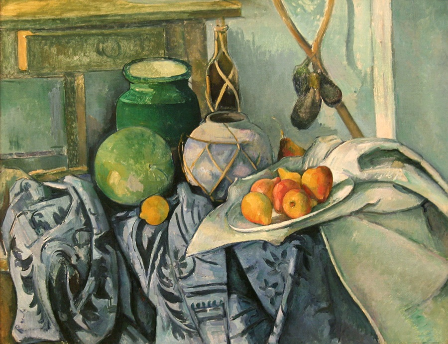 Still_life_with_a_Ginger_Jar_and_Eggplants (MoMA)